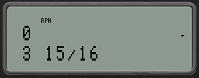 Screenshot of the HP 35s calculator emulator illustrating 10cm converted to inches and displayed as a mixed fraction.